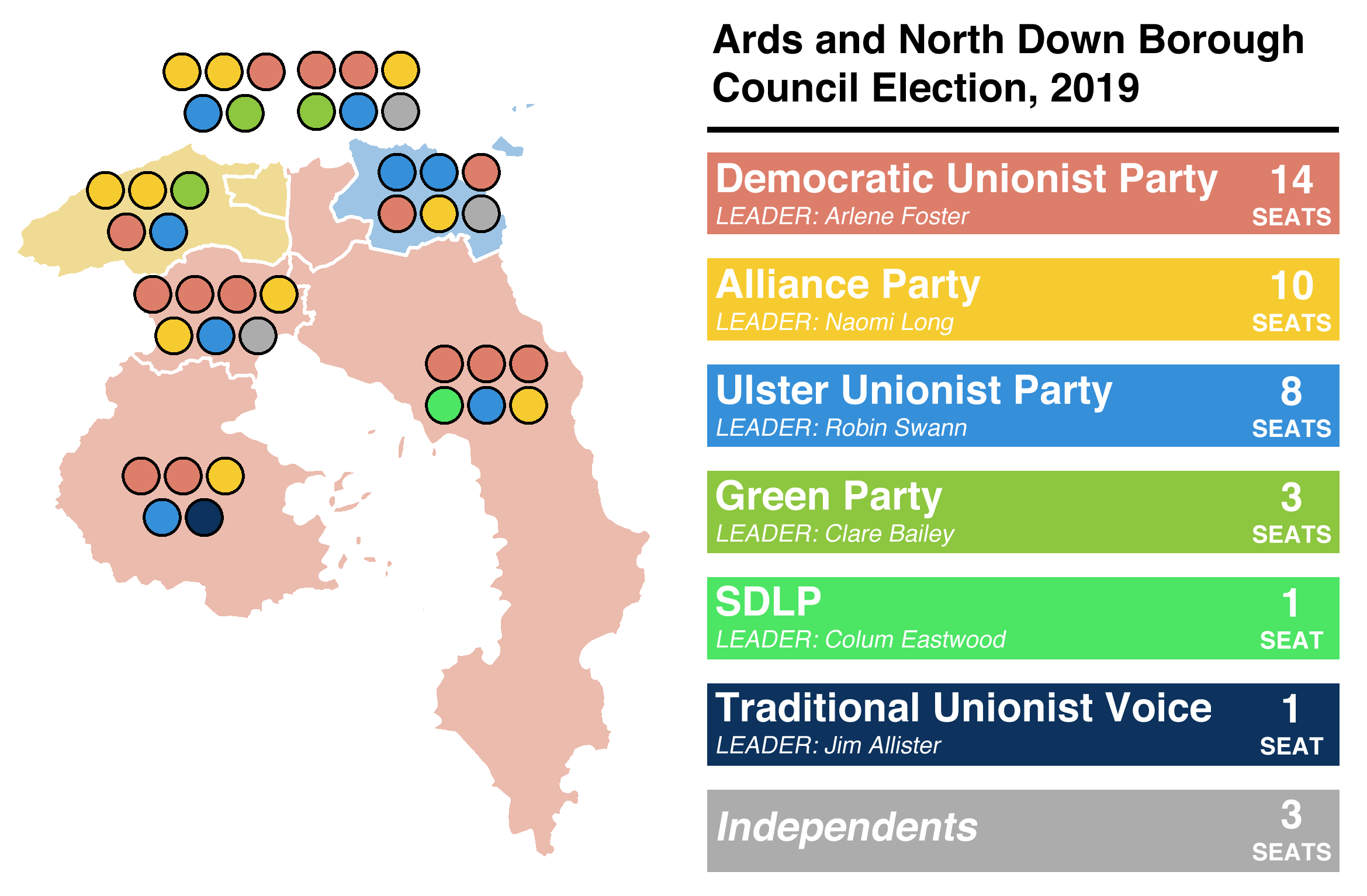 Map of results for the 2019 Ards and North Down Borough Council Election by District Electoral Area with plurality winner